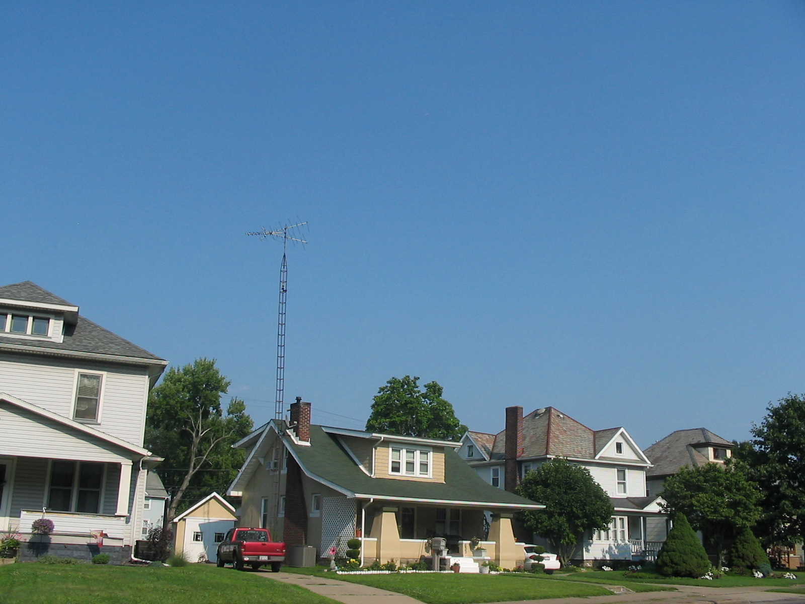 Image taken by me for Wikipedia